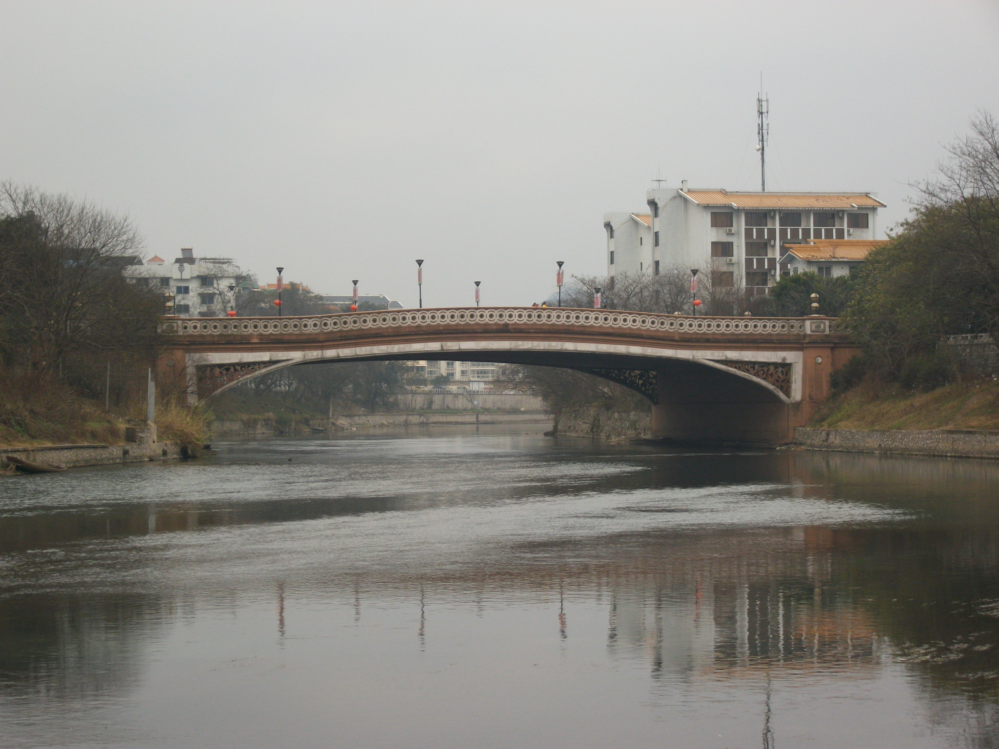 Longyin Bridge, Guilin.